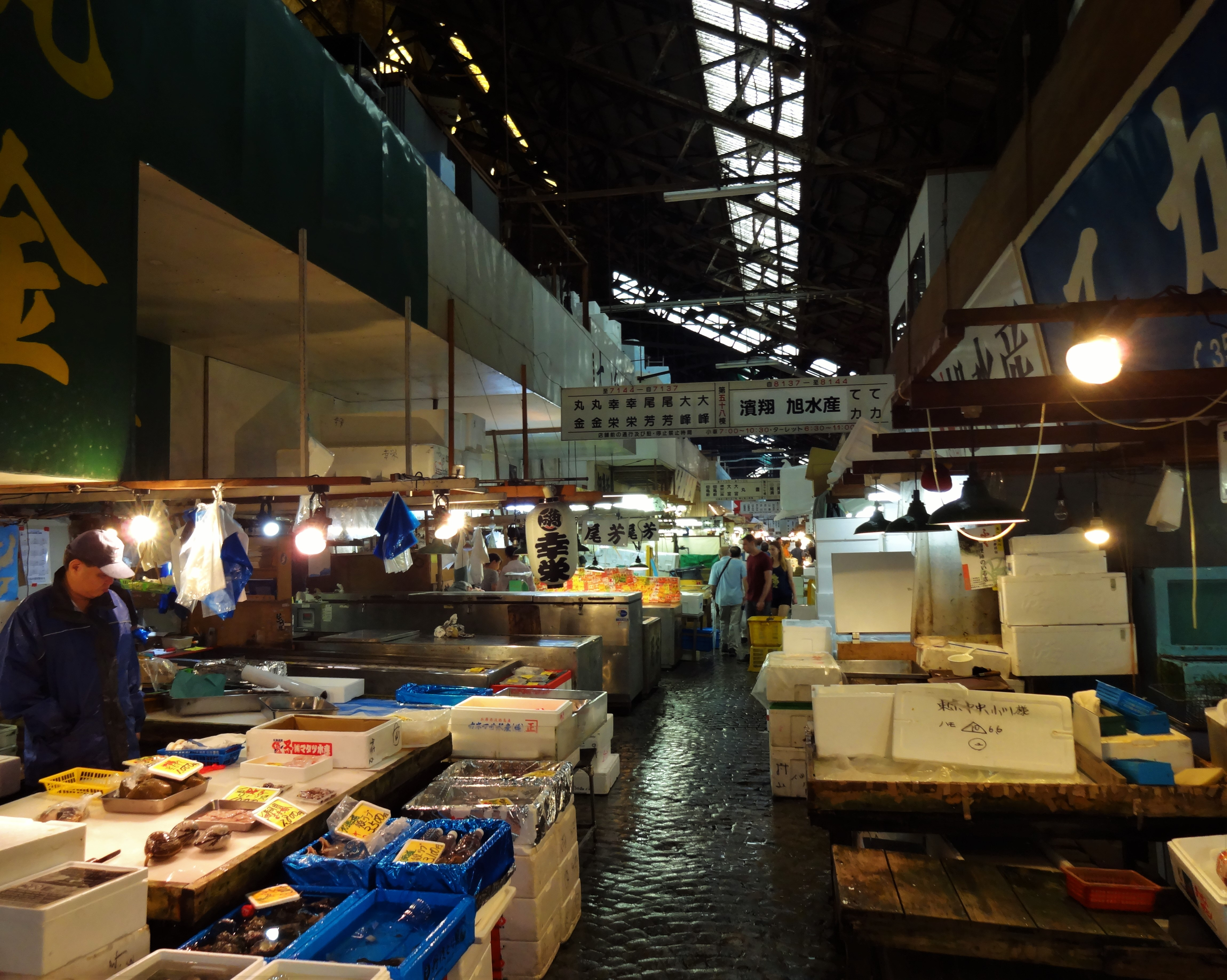 Storage and selling aisle at the Tsukiji fish market, Tokyo, Japan